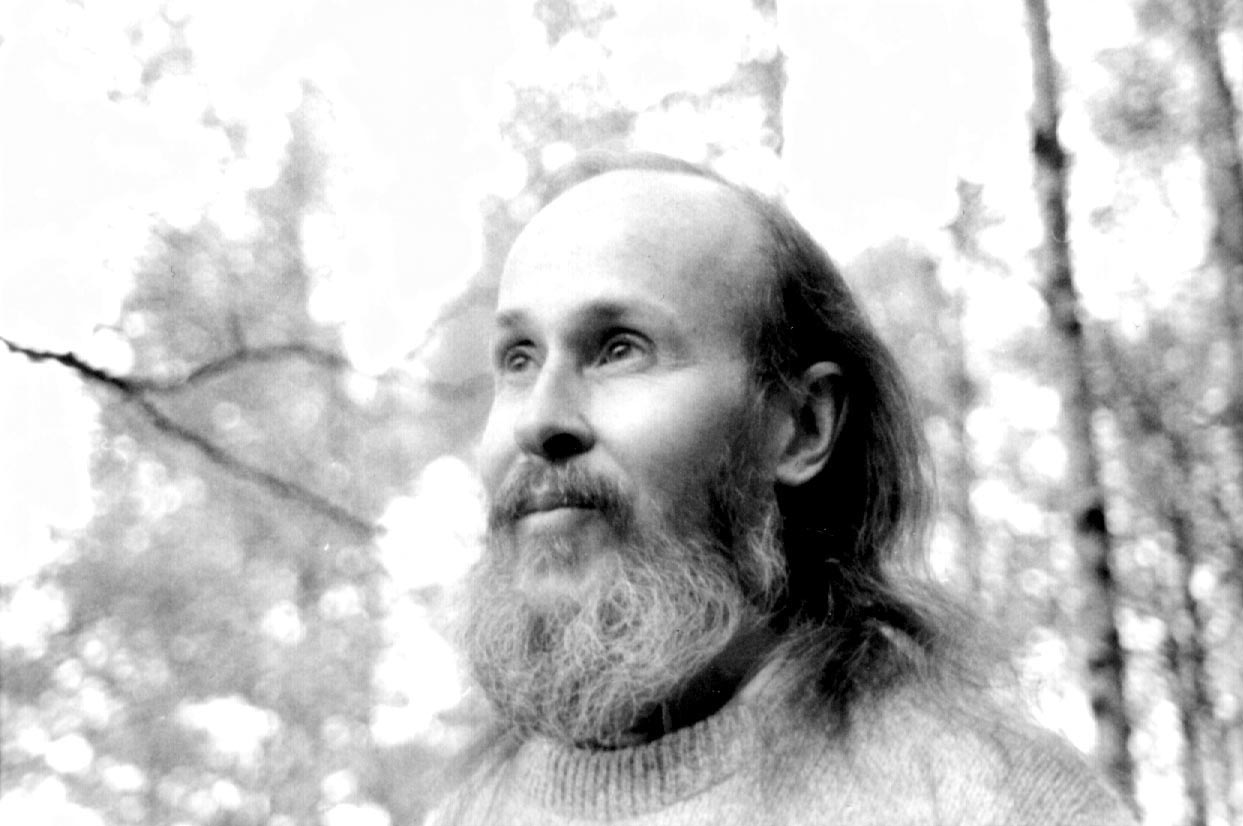 Image of Marshall Govindan which will be used in the article about him